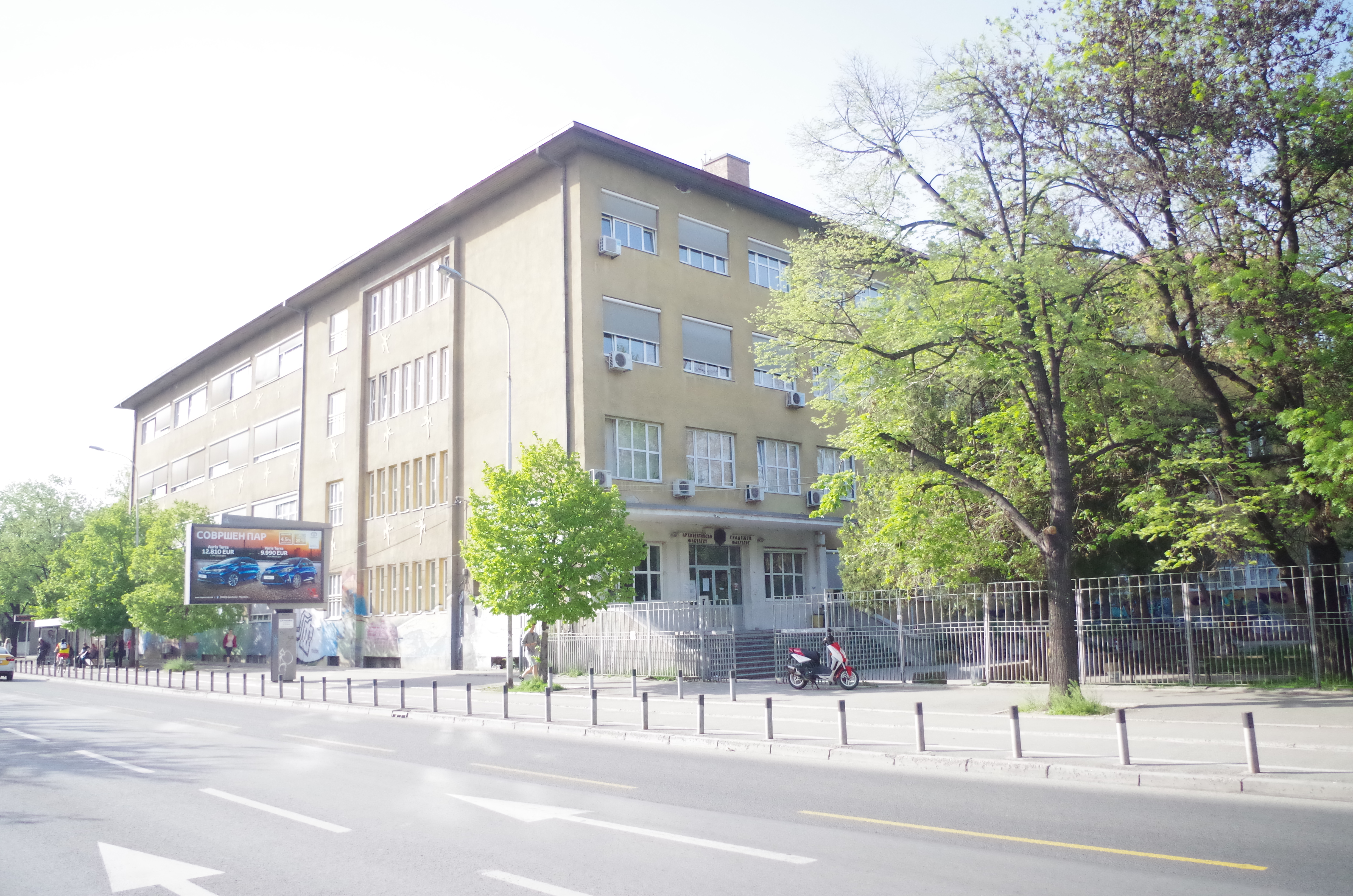 Building of the Architectural and Civil Engineering faculties in Skopje, Macedonia